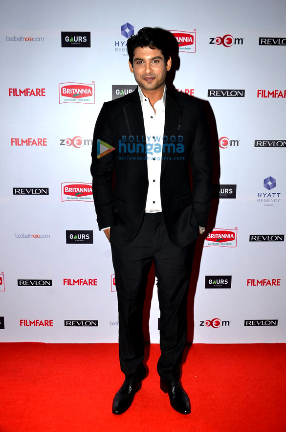 Sidharth shukla attending 60th filmfare awards